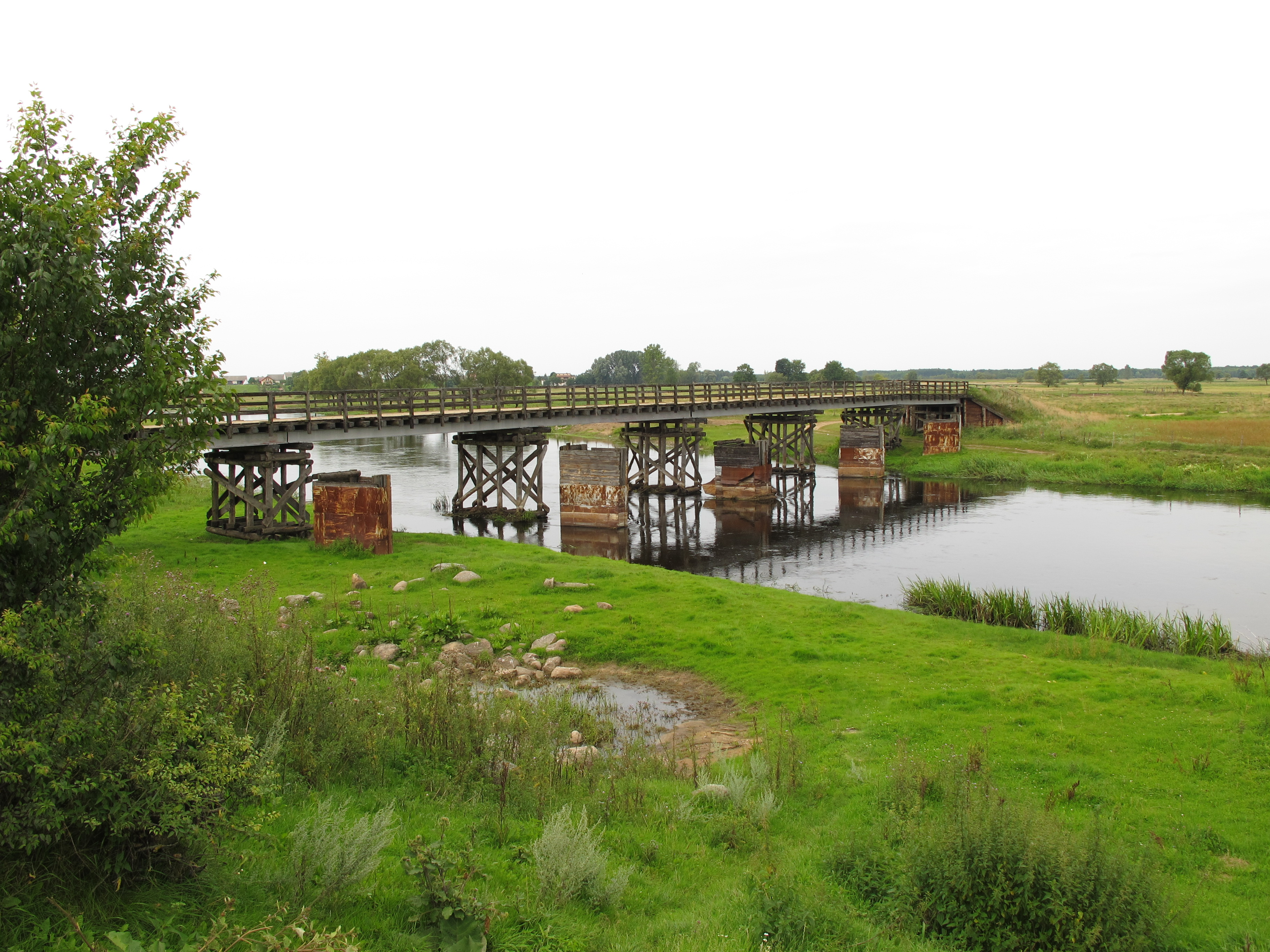 Bridge over the Narew river in the Łaś-Toczyłowo village, gmina Zawady, podlaskie, Poland